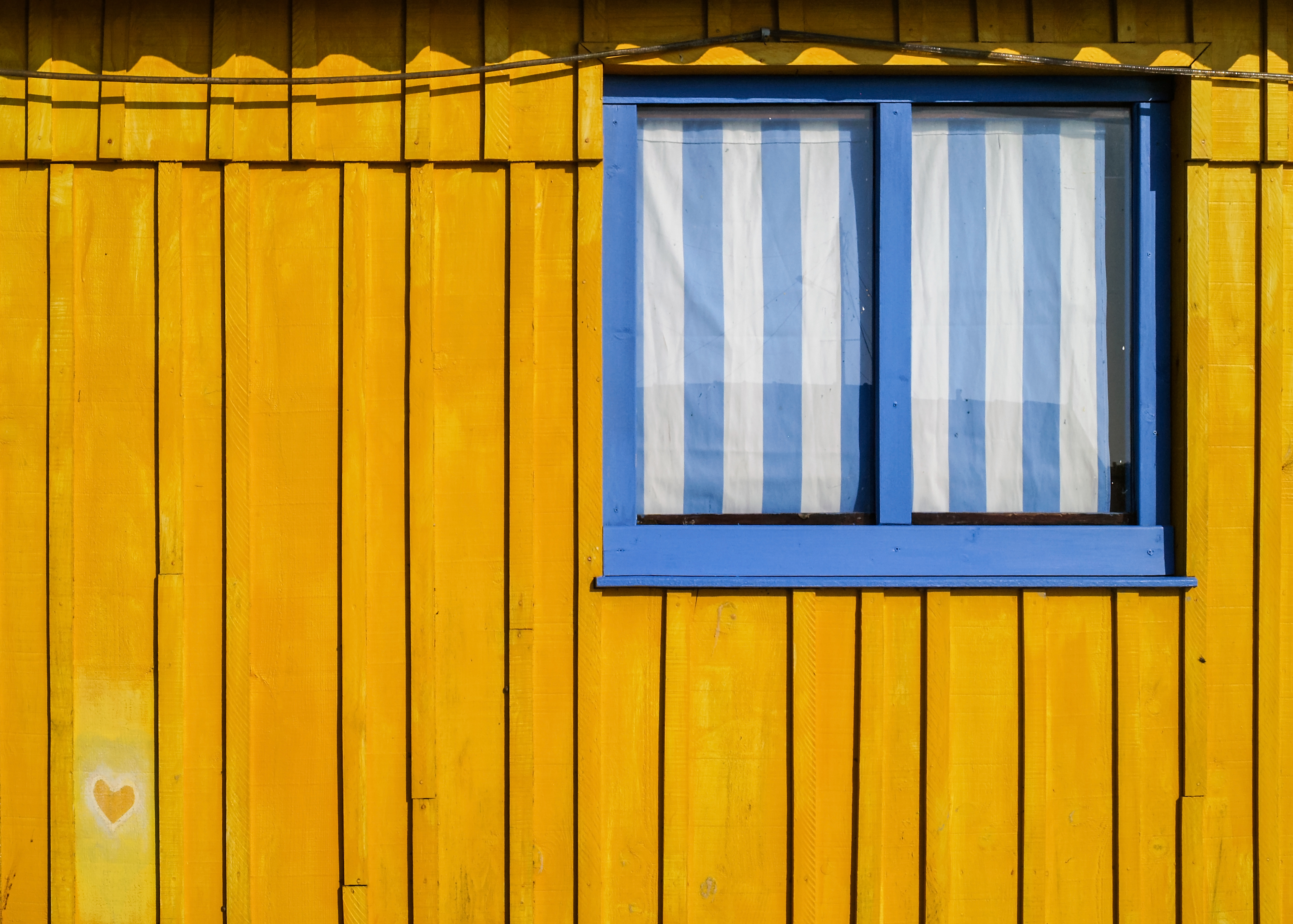 Le Château-d'Oléron, Charente-Maritime, France: detail of a renewed former oyster farmers' hut.